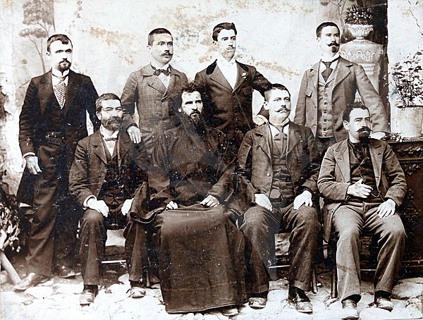 Stoyan Zlatin (Zlatarov) – father of Lyudmil Stoyanov, Dimitar Barakov, Nikifor Popfilov, Hristo Ivanov Daskalov